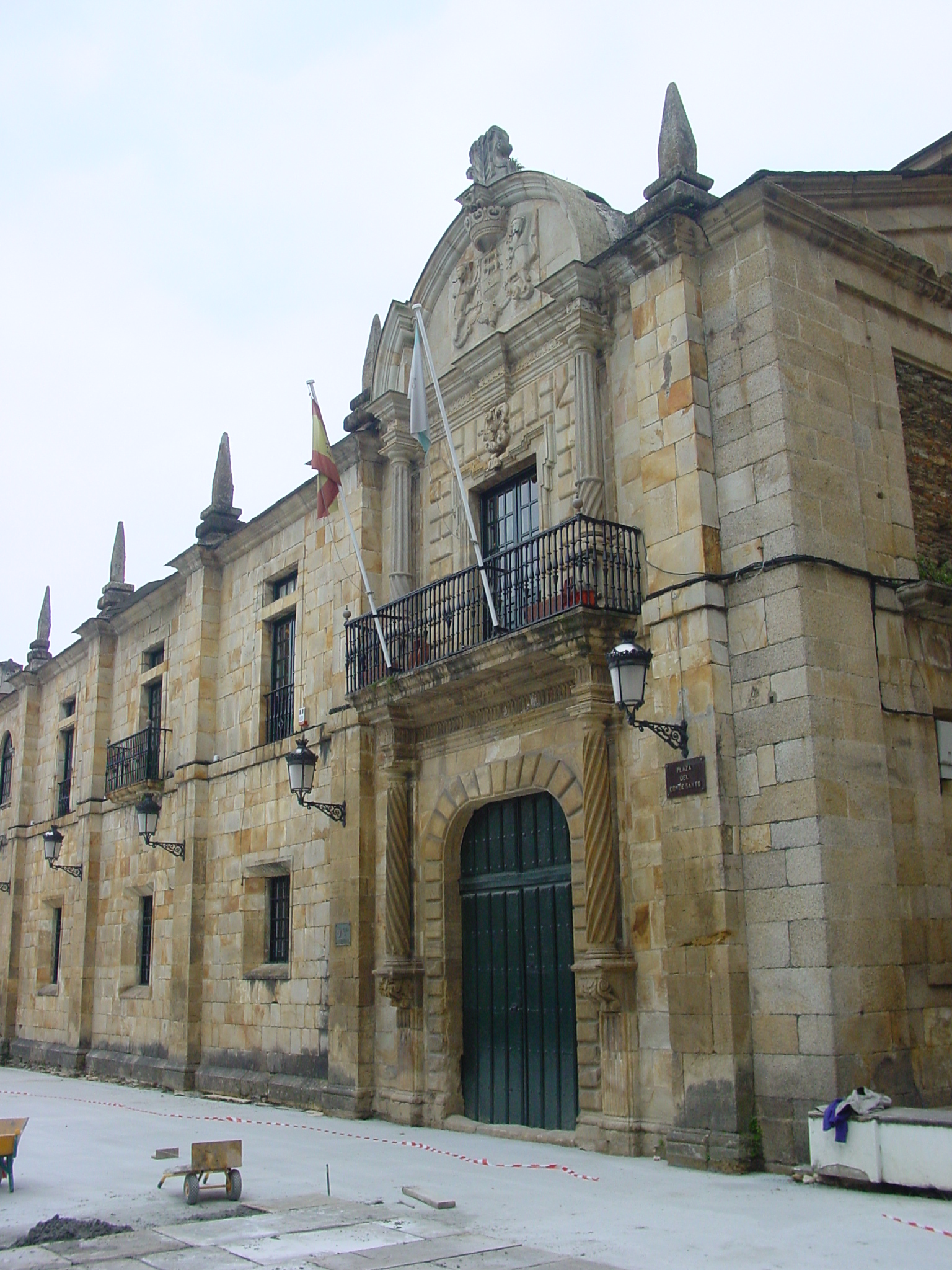 Facade of the monastery of San Salvador in Lorenzana, in the province of Lugo, Spain. It is home to the Town Hall.